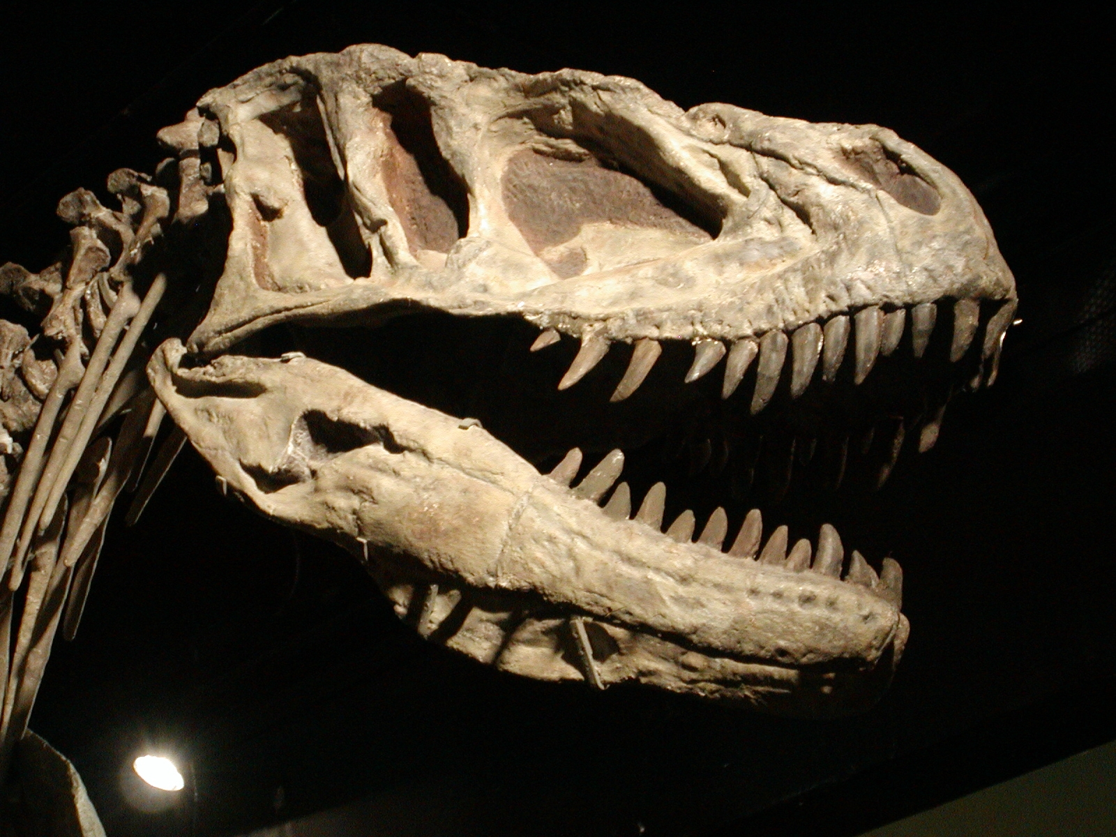 Photo of Sinraptor hepingensis skull from the Beijing Musuem of Natural History on view at the Miami Museum of Science.